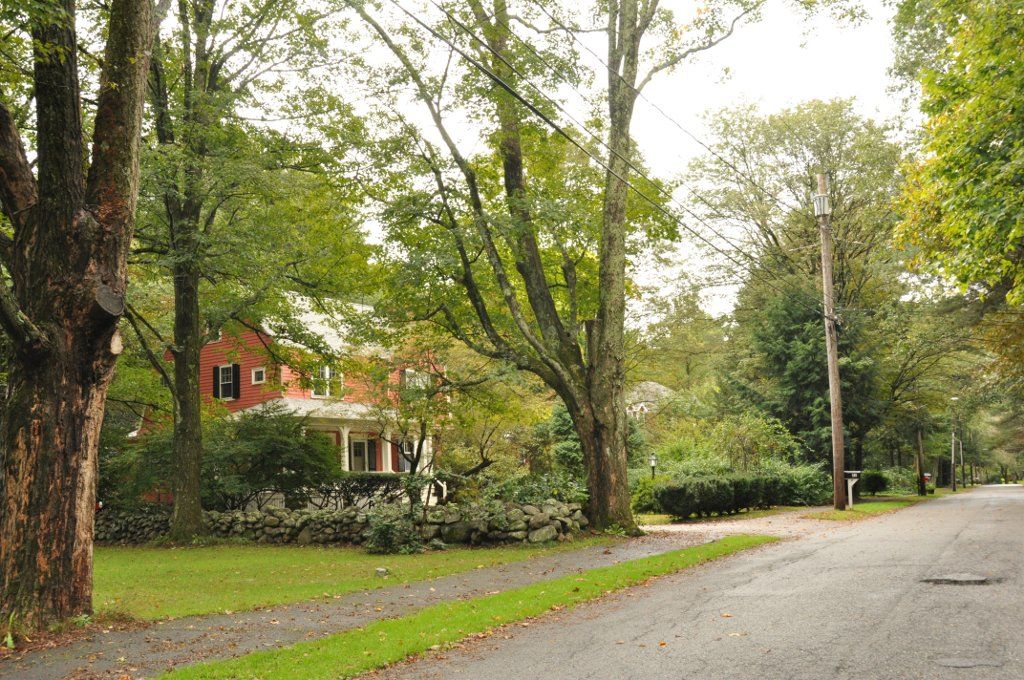 Silver Hill Road, part of the Silver Hill Historic District in Weston, Massachusetts.